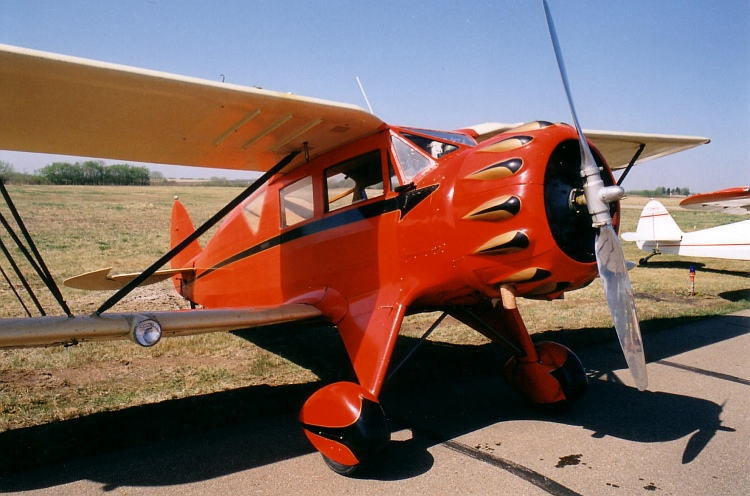 I took this photo of a WACO "S" series cabin biplane at Red Deer, Alberta in 1998.